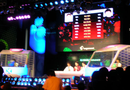 Shinhan Bank Starleage in the Yonhap Ismall eSports stadium